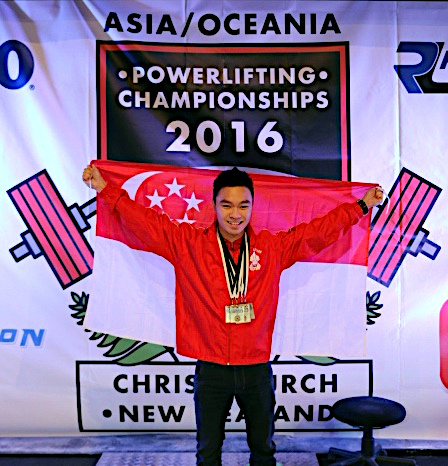 Marcus Yap with his 4 gold medals after the Asian Oceania Championships 2016 held in Christchurch, New Zealand